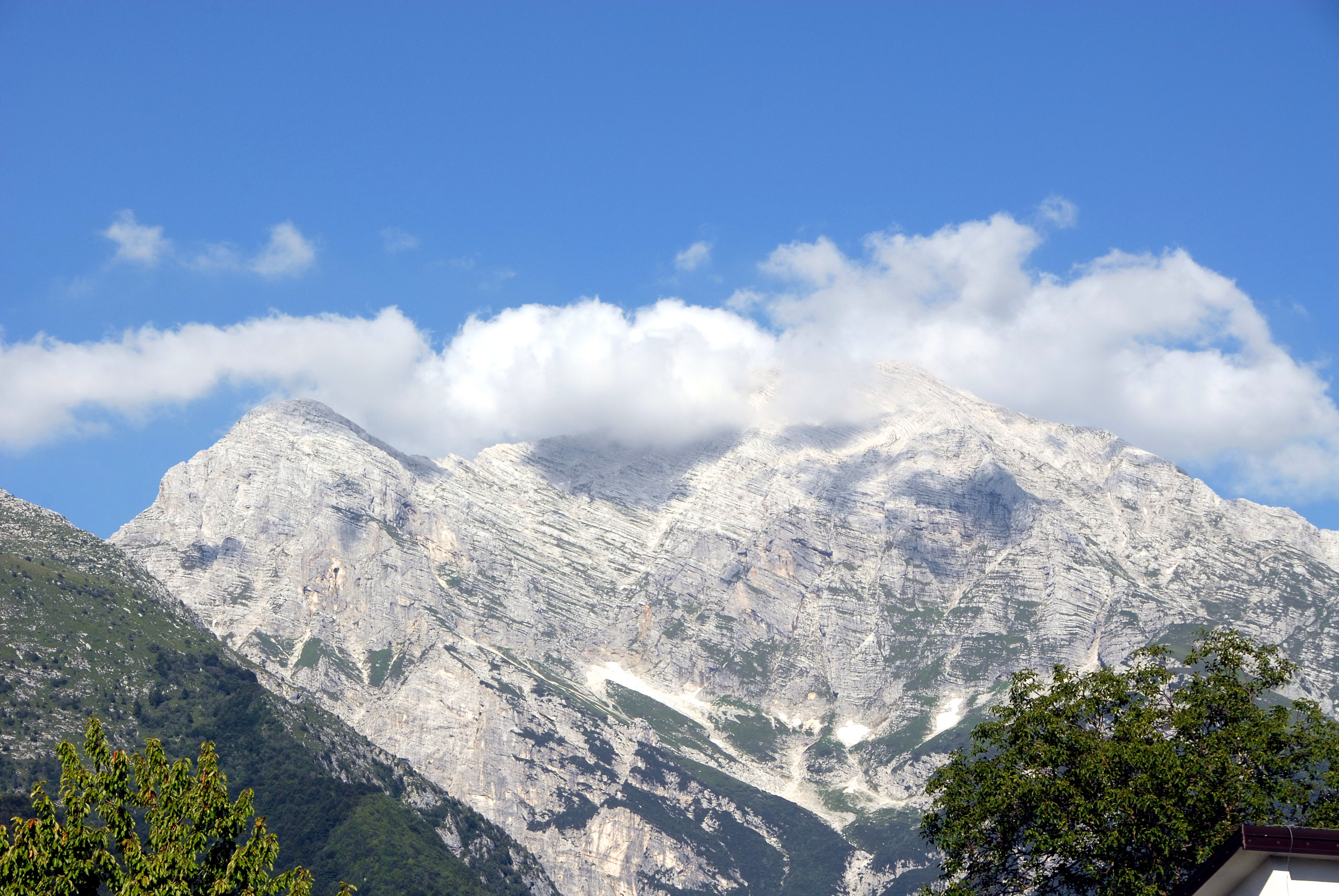 View at the mountain Canin, seen from Stolvizza in the Resia valley, a tributary valley of Canal del Ferro / Friuli-Venezia Giulia / Italy / EU.